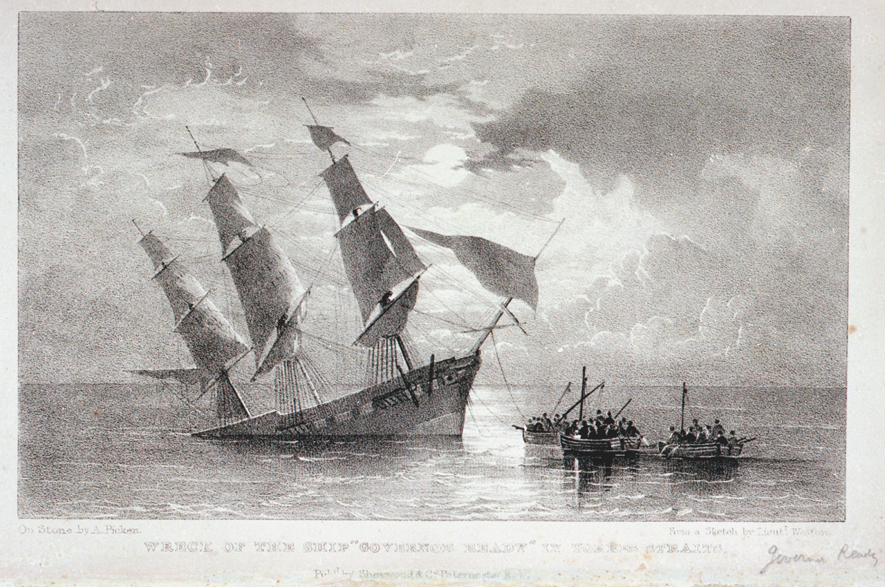 "Wreck of the Ship 'Governor Ready’ in Torres Straits" by Lieutenant George Edward Nicholas Weston (1796-1856). Published in the book "Narrative of a Voyage round the World" by Thomas Braidwood Wilson in 1835.